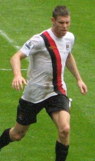 English footballer James Milner plays for Manchester City in a league game versus Wigan in September 2010.